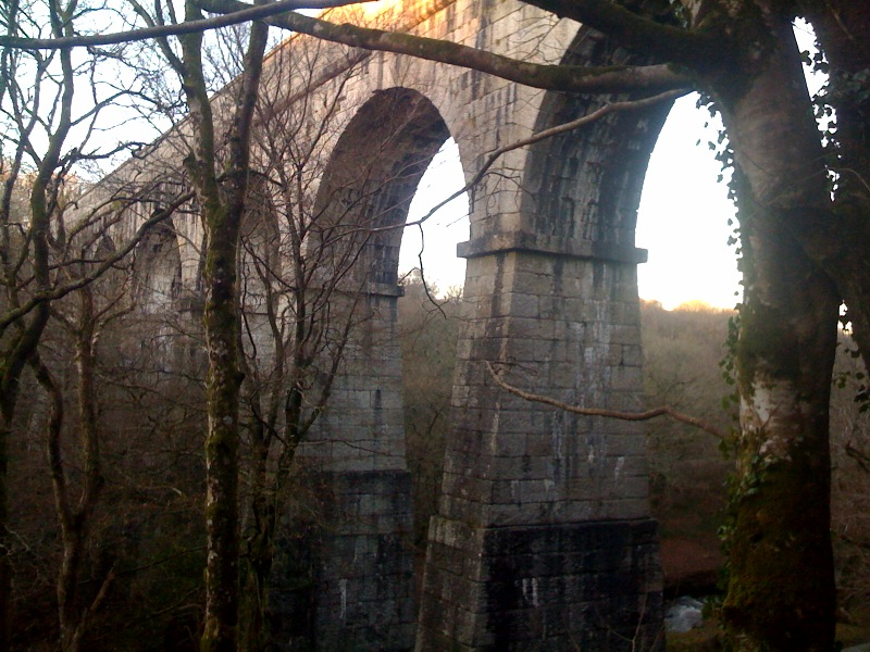 Colour digital photograph showing the Treffry Viaduct aqueduct and viaduct in Luxulyan Valley, Cornwall, UK.